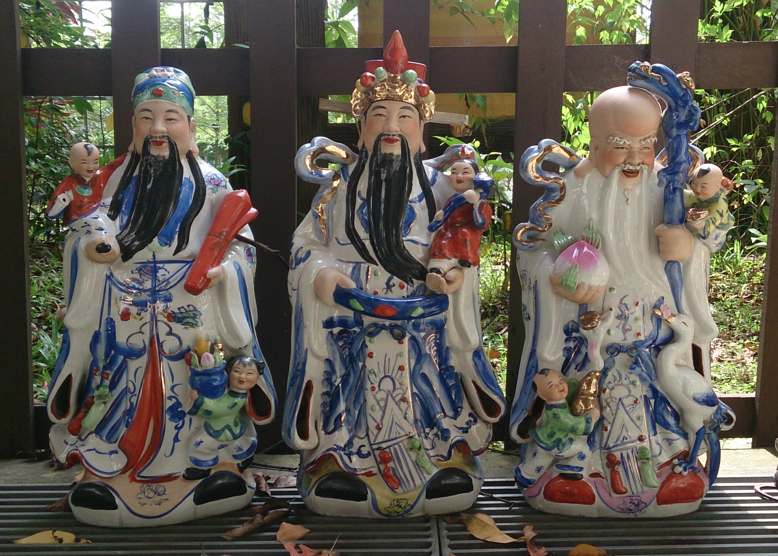 popular folklore "gods" representing fortune, posterity and longevity commonly found in Chinese homes